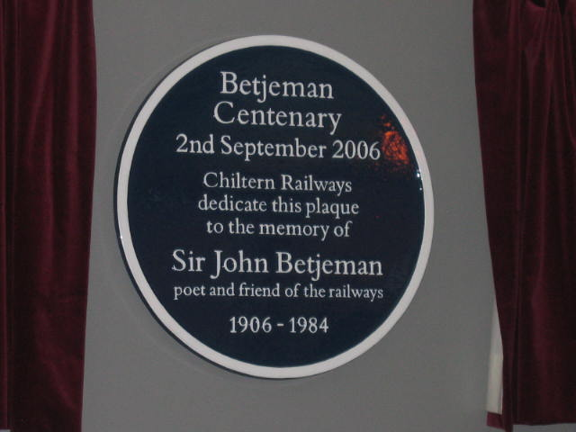 IXIA, 2 September 2006 Betjeman centenary: commemorative plaque unveiled by Candida Lycett Green, Marylebone station, 2 September 2006 I took this photograph myself and it may been used by Wikipedia. IXIA 13:36, 22 September 2006 (UTC)